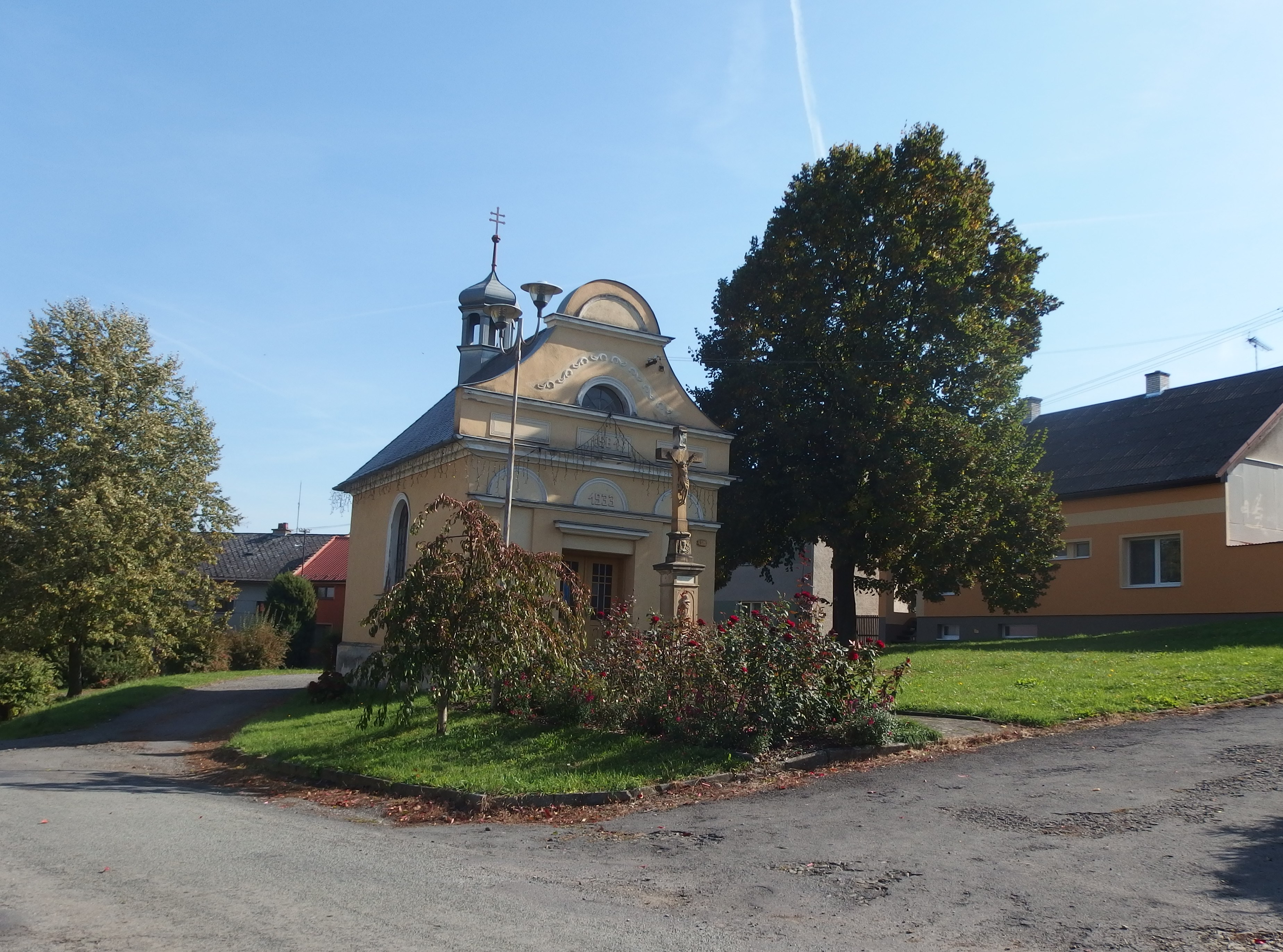 Charváty, Olomouc District, Czech Republic, part Čertoryje.